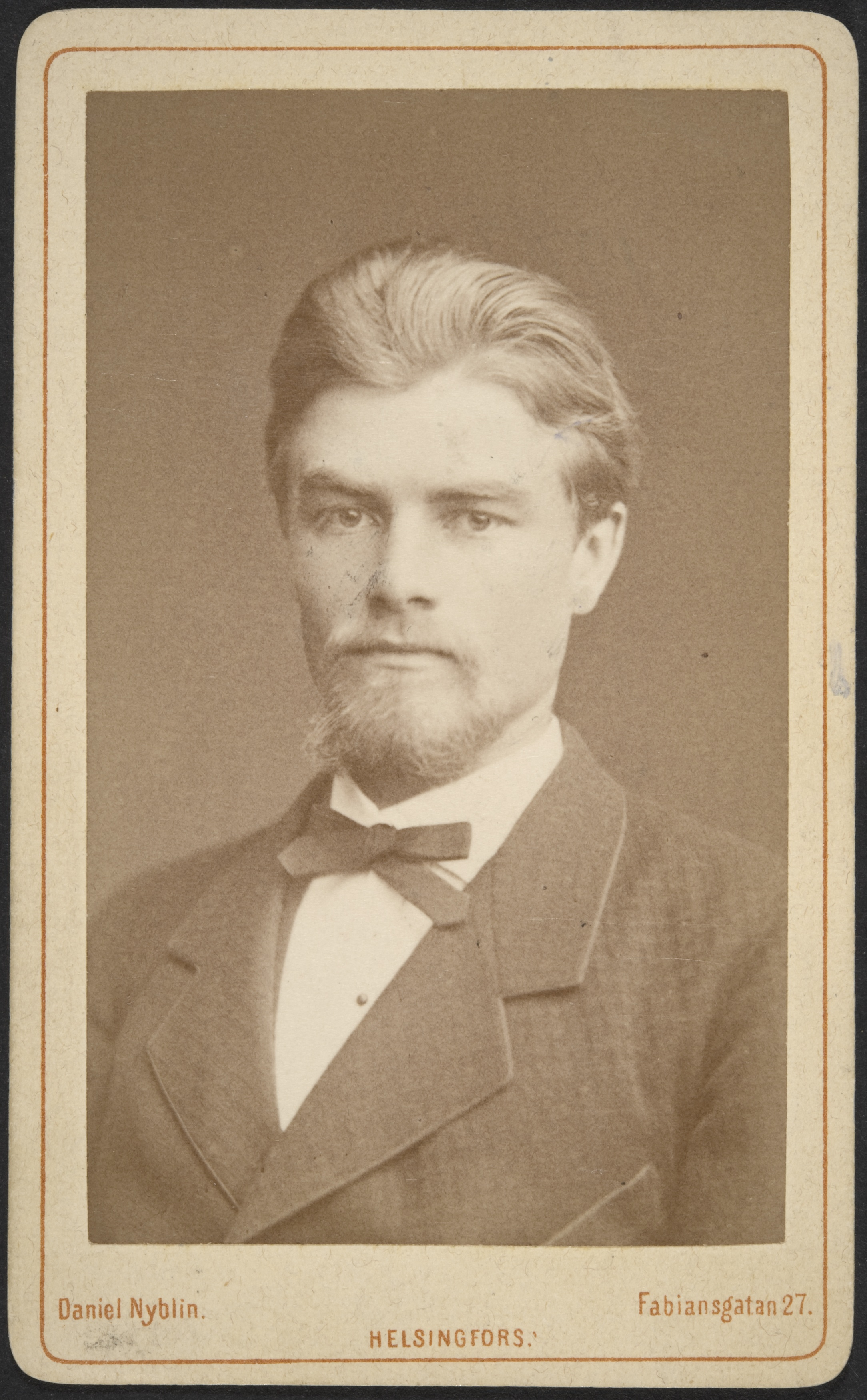 Photograph of the Finnish engineer Gustaf Adolf Helsingius (1855–1934).